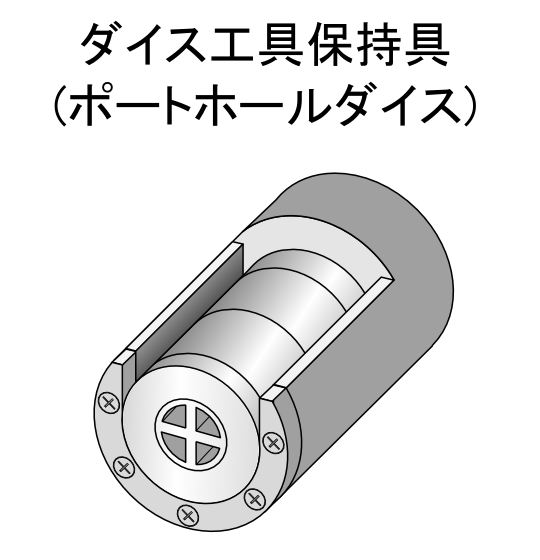 Metal Extrusion (model of Porthole Dice) 2 J.PNG